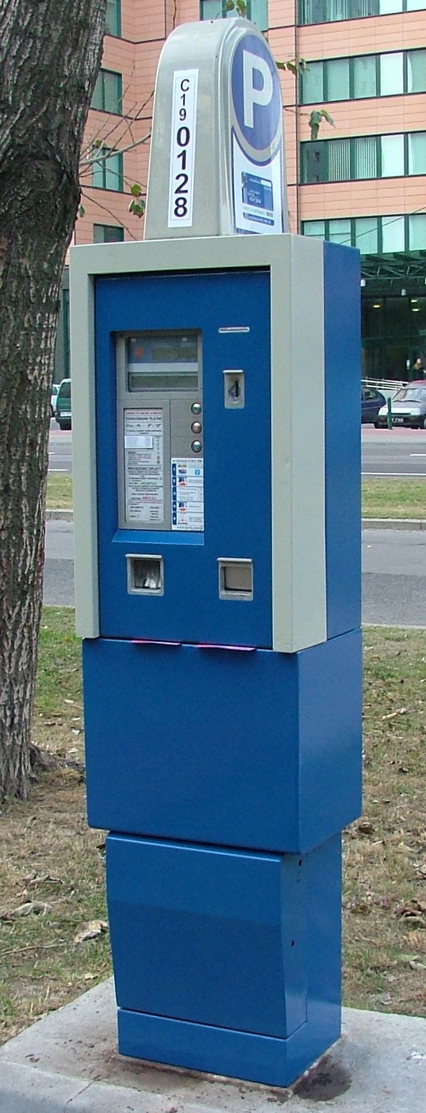 Poland, Warsaw, parking meters